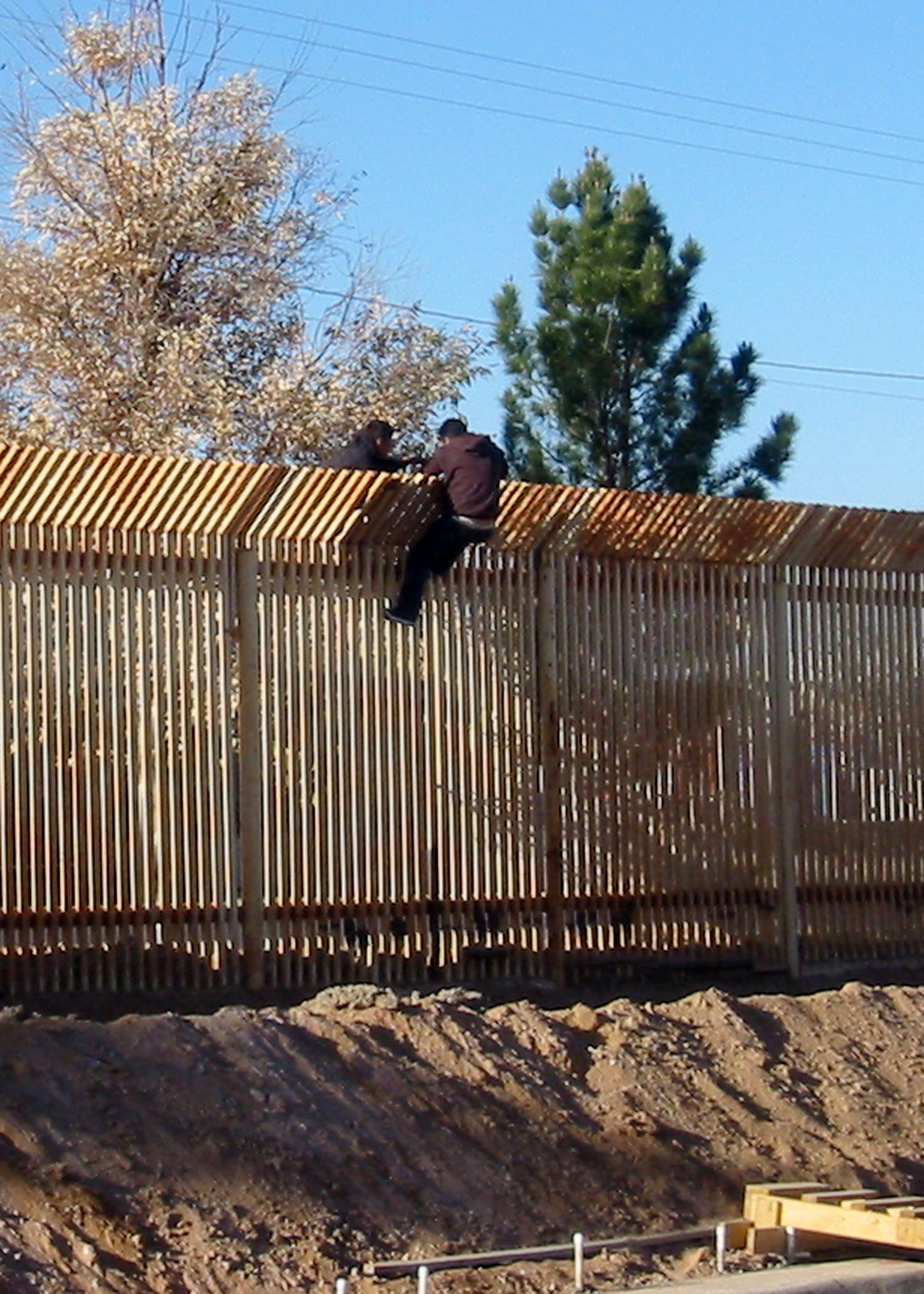 DOUGLAS, Ariz. (March 17, 2009) Two men scale the border fence into Mexico a few hundred yards away from where Seabees from Naval Mobile Construction Battalions (NMCB) 133 and NMCB-14 are building a 1,500 foot-long concrete-lined drainage ditch and a 10 foot-high wall to increase security along the U.S. and Mexico border in Douglas, Ariz. (U.S. Navy photo by Steelworker 1st Class Matthew Tyson/Released)